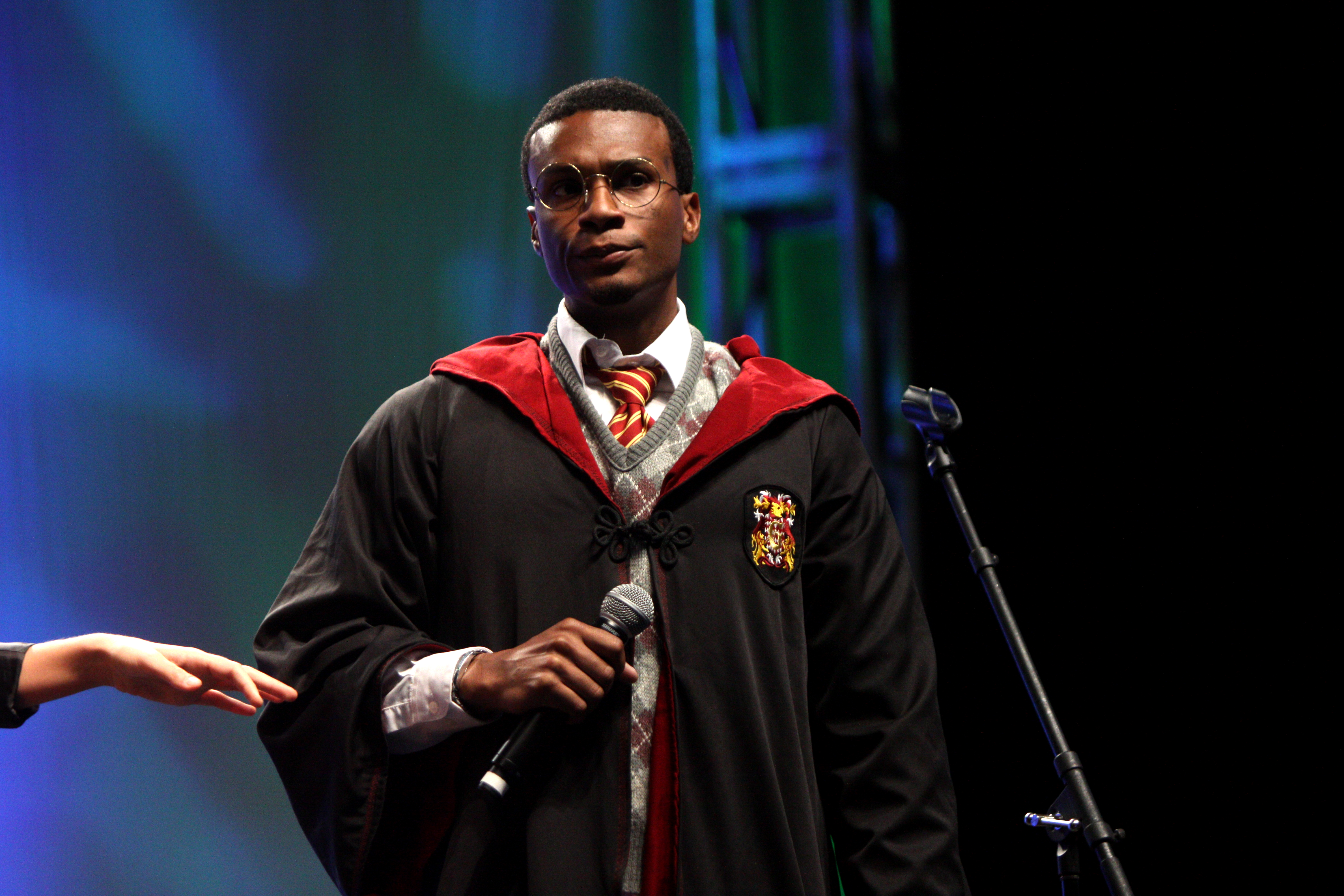 Hip Hop of MyMusic speaking at VidCon 2012 at the Anaheim Convention Center in Anaheim, California.